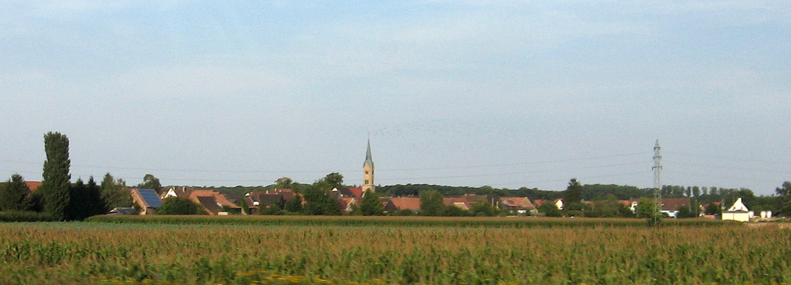 Erlenbach bei Kandel